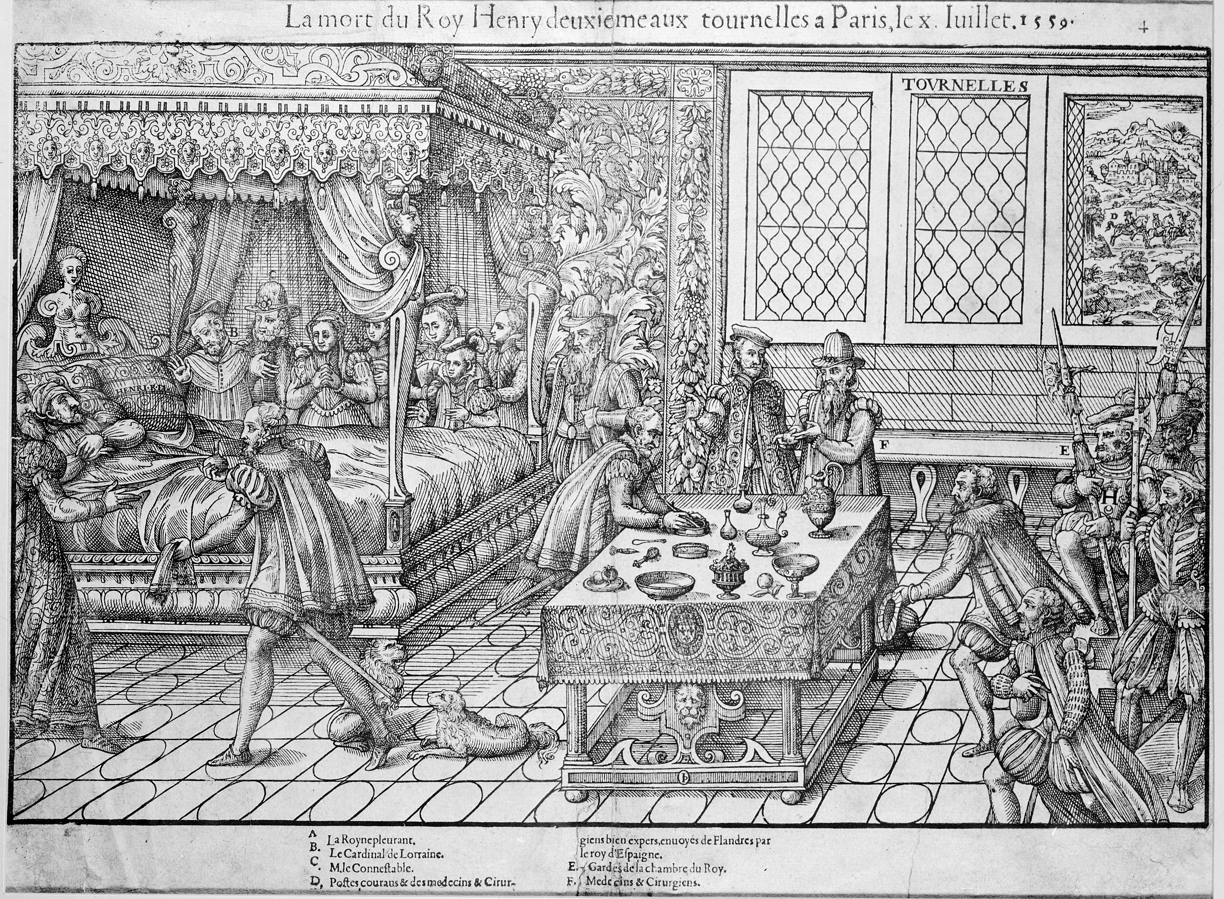 Death of Henri II of France, 1559, after the fatal lance wound in the right eye at a tournament. Ambroise Pare' and Vesalius are both believed to be present. Woodcut from Evenements remarquables (1559-1570) Iconographic Collections Keywords: J.J. Perrissin; Ambroise Paré; Tortorel